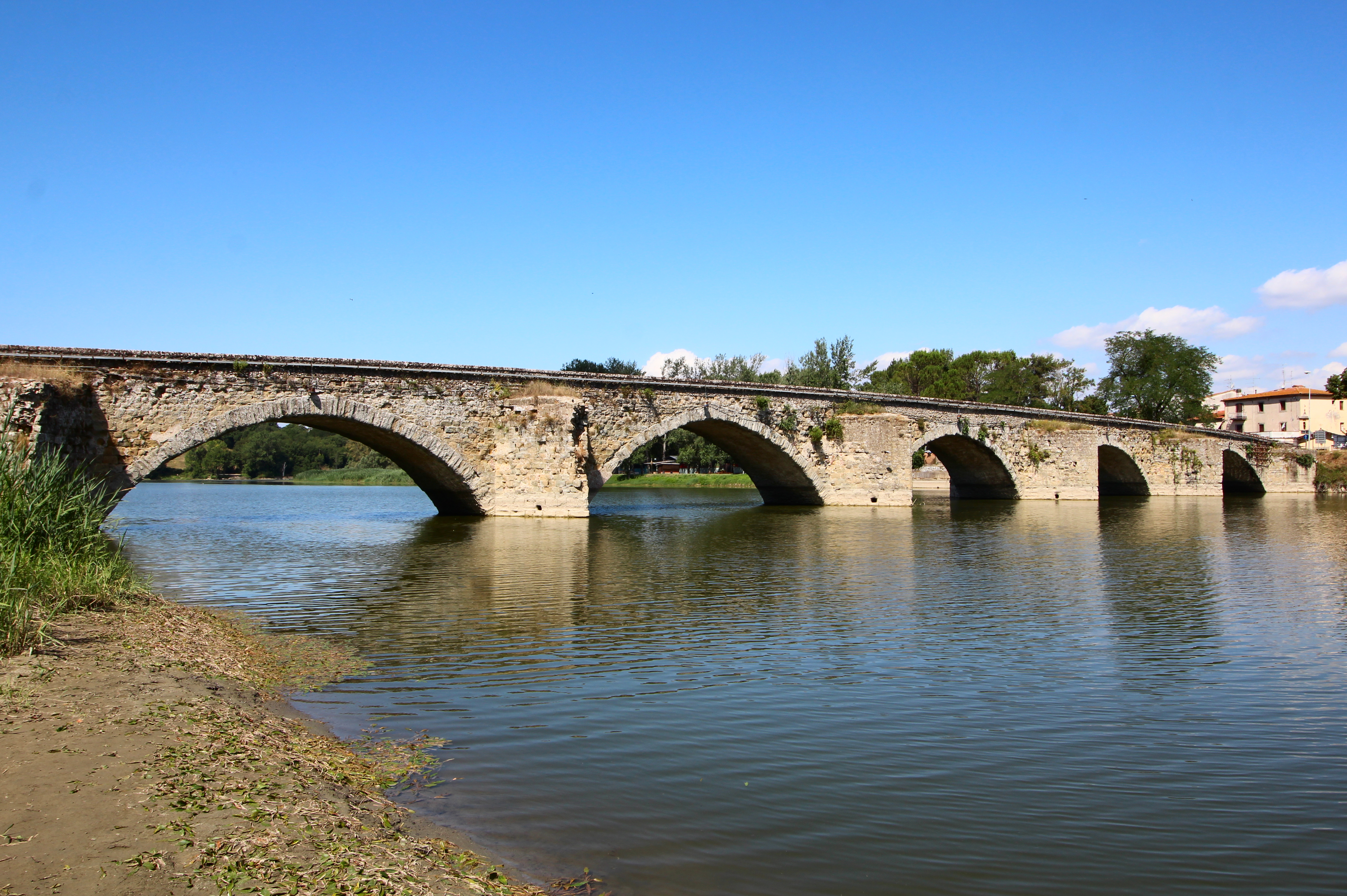 Ponte Buriano, in Ponte a Buriano, village of Arezzo, Province of Arezzo, Tuscany, Italy. Built in 1277. Probably the bridge in the background on Leonardo da Vinci’s painting La Gioconda (Mona Lisa).